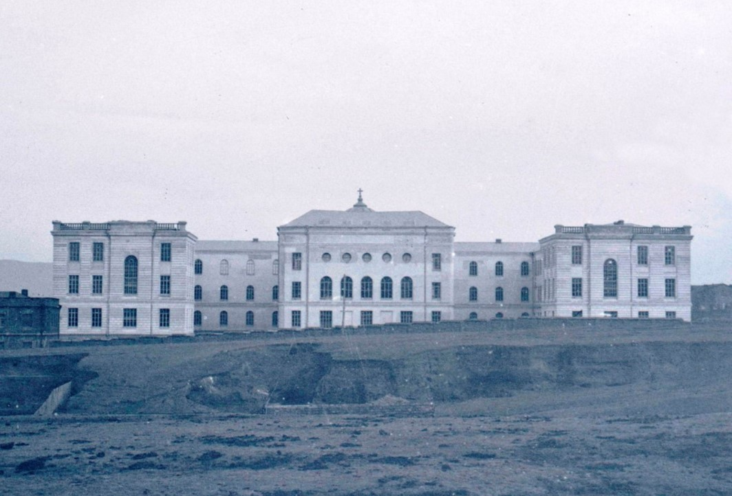 Tbilisi State University building backside. 1918.